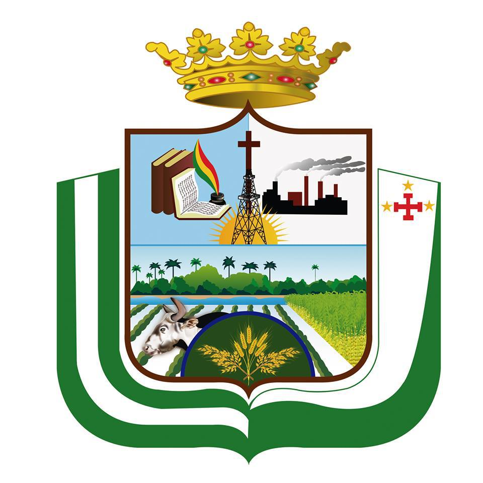 Escudo de la provincia sara Departamento de Santa Cruz